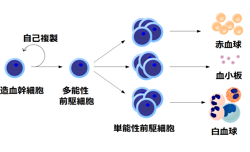 Diagram of normal hematopoiesis